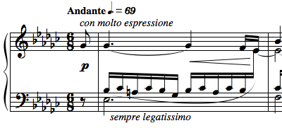 Excerpt from Chopin's Etude Op. 10 No. 6